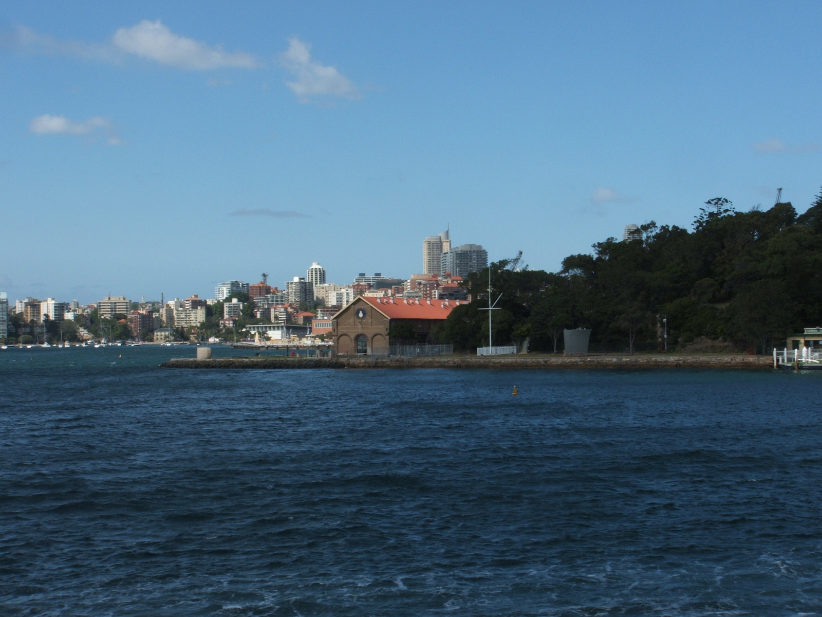 Photograph of the Royal Australian Navy Heritage Centre on Garden Island, Sydney, Australia. The bow from the destroyer HMAS Parramatta stands between the jetty and the mast.